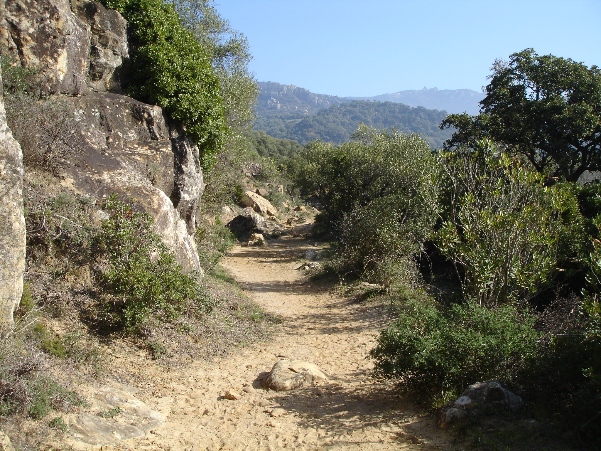 Trail in Matorral-Maquis shrubland at Parque Natural Los Alcornocales - Spain.